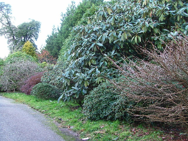 Burncoose Gardens, nr Gwennap. On the western side of the A393 between Penryn and Redruth lies the formal gardens of Burncoose, and its associated nursery. Winter foliage looks great, whilst nursery specialises in camellias.